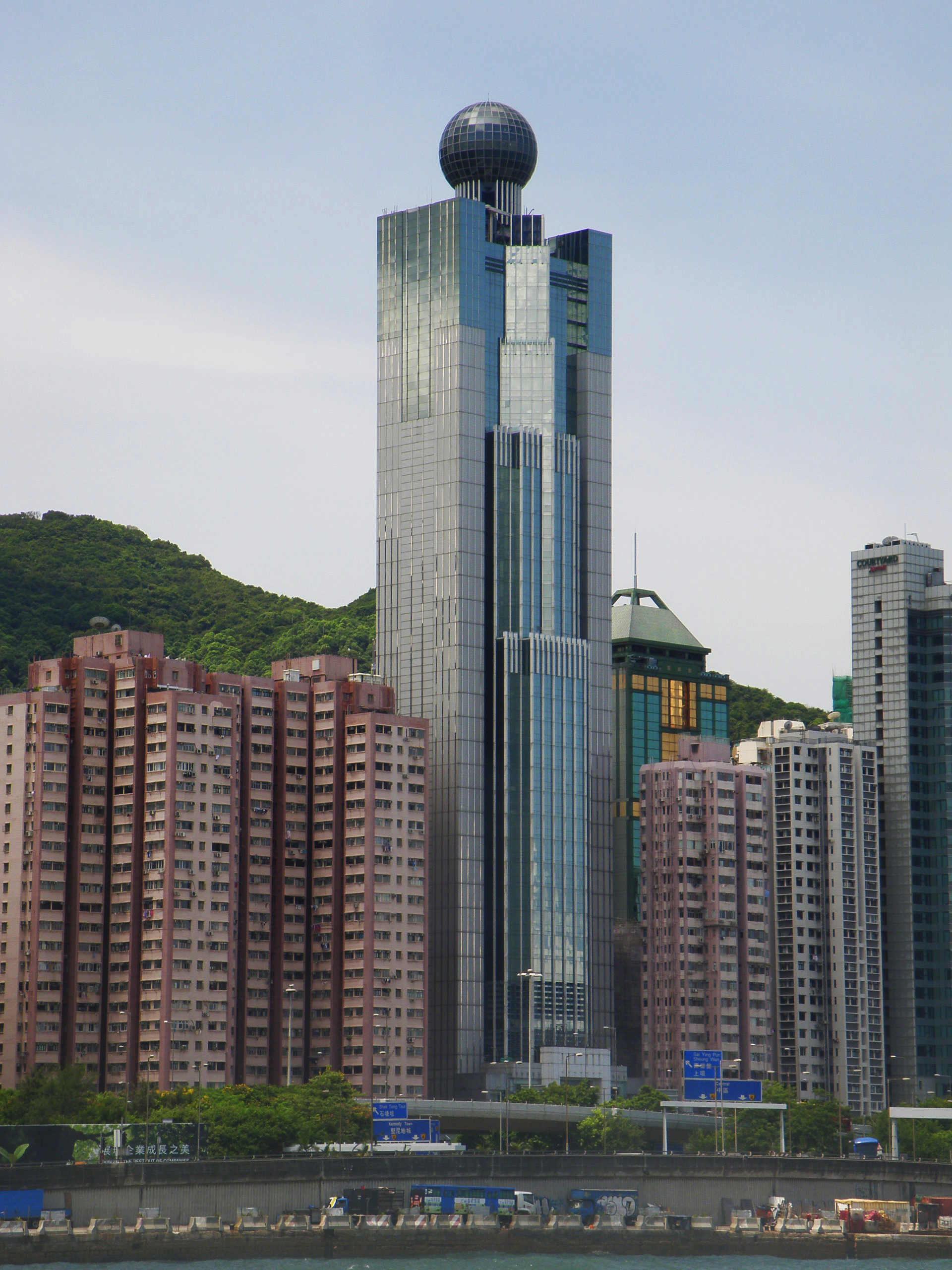 China Merchants Group The Westpoint in Sai Ying Pun, Hong Kong.